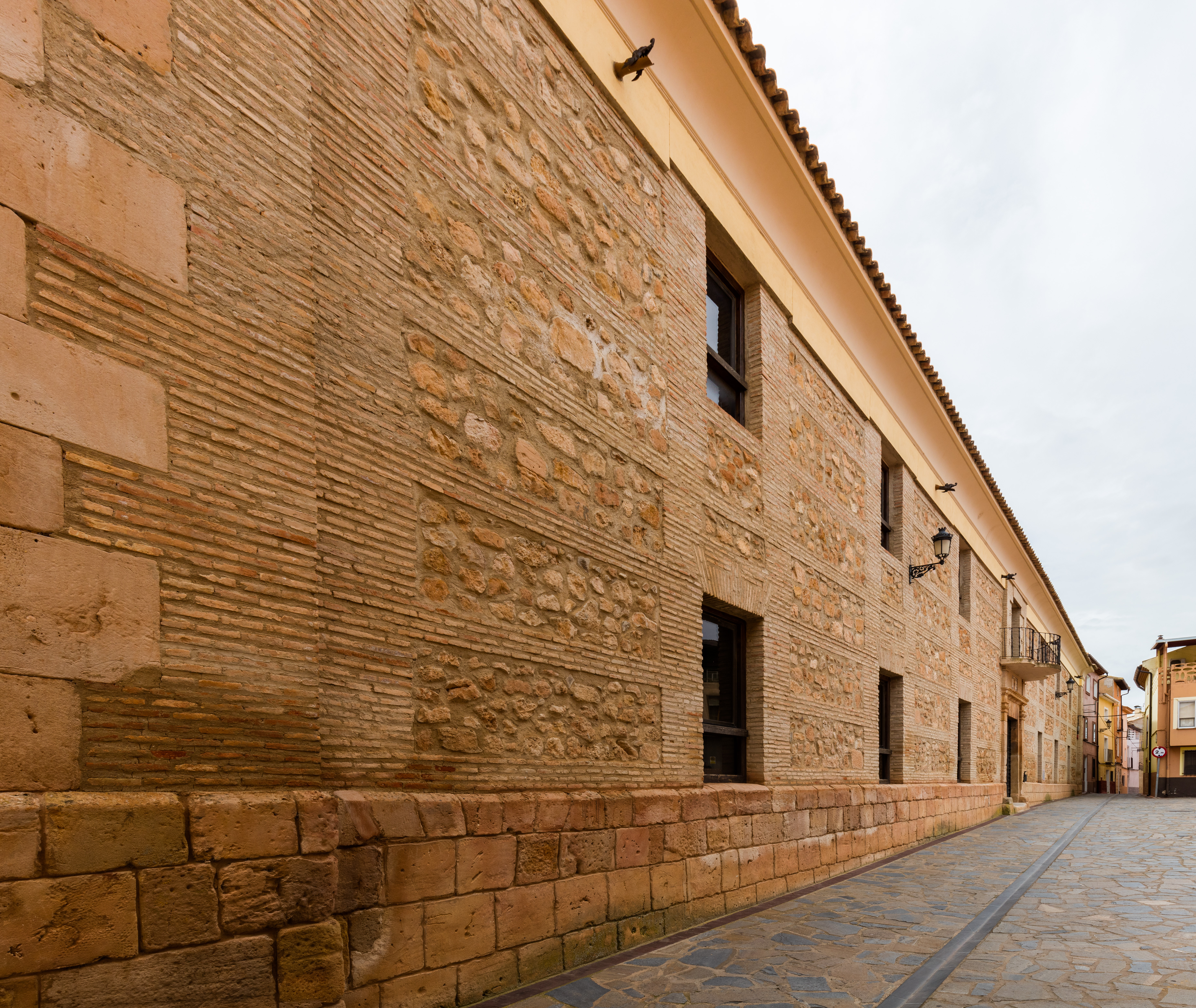 Palace house of the Marquess of Ariza, Ariza, Zaragoza, Spain